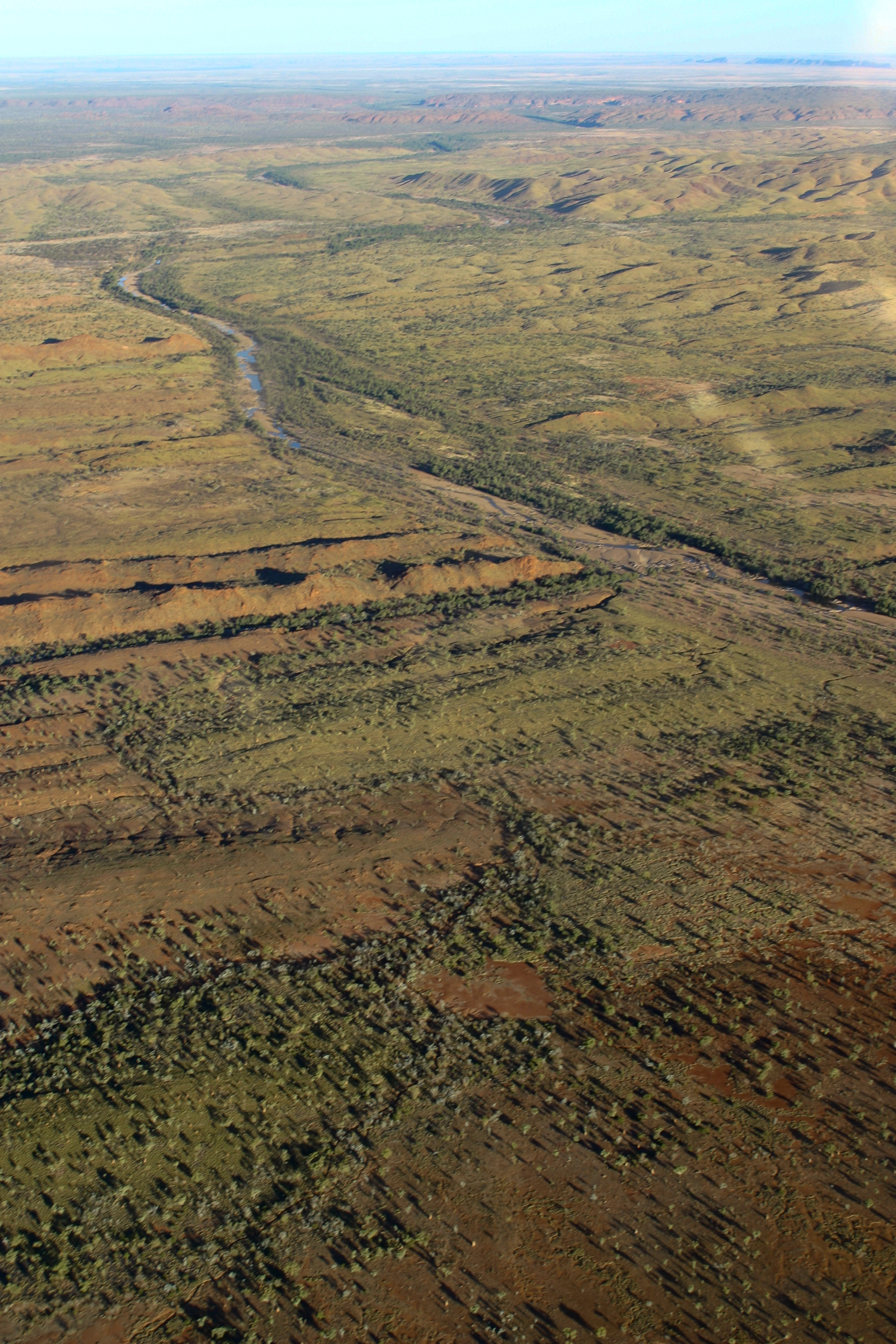 Ord River